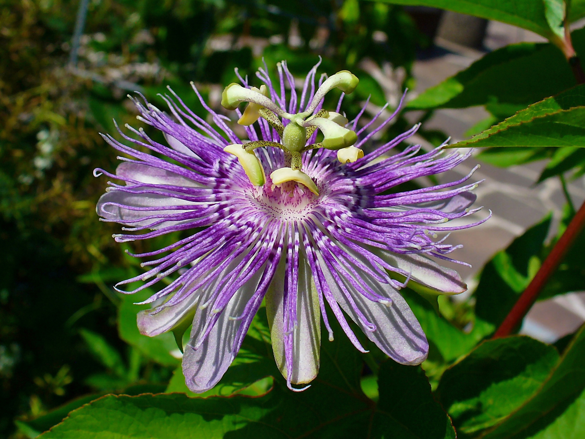 Passiflora incarnata, Passifloraceae, Maypop, Purple Passionflower, True Passionflower, Wild apricot, Wild passion vine, flower. Botanical Garden KIT, Karlsruhe, Germany.